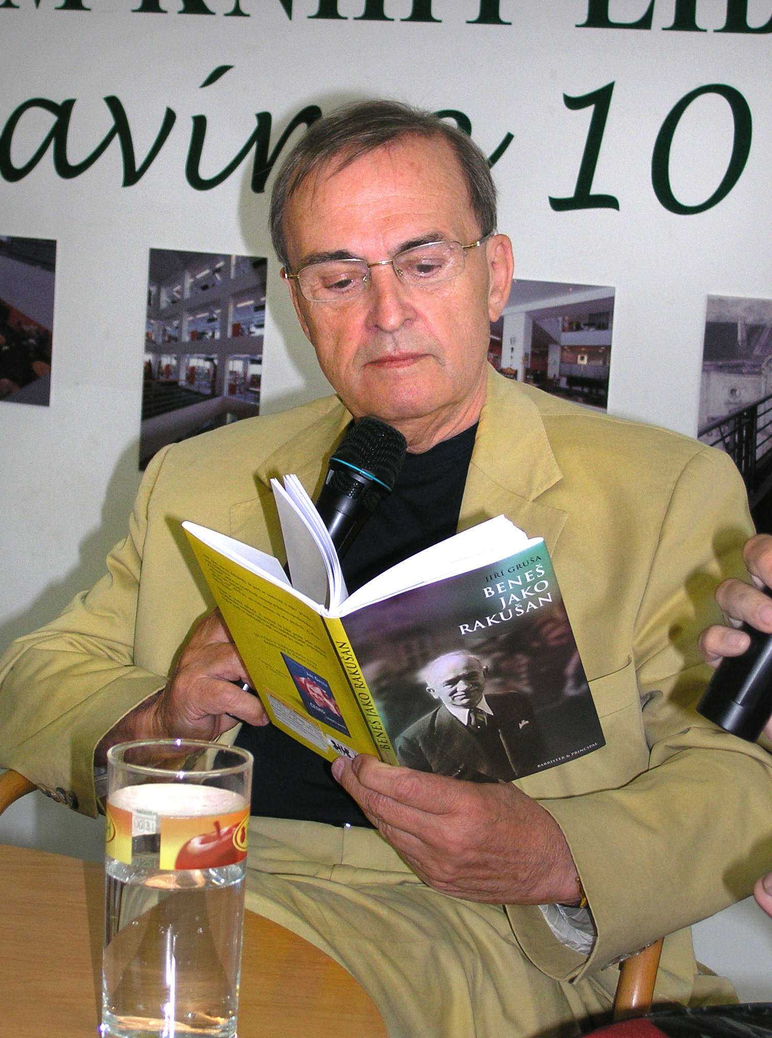 Jiří Gruša, Czech writer and politician, at the Book Fair in Ostrava, Czech Republic